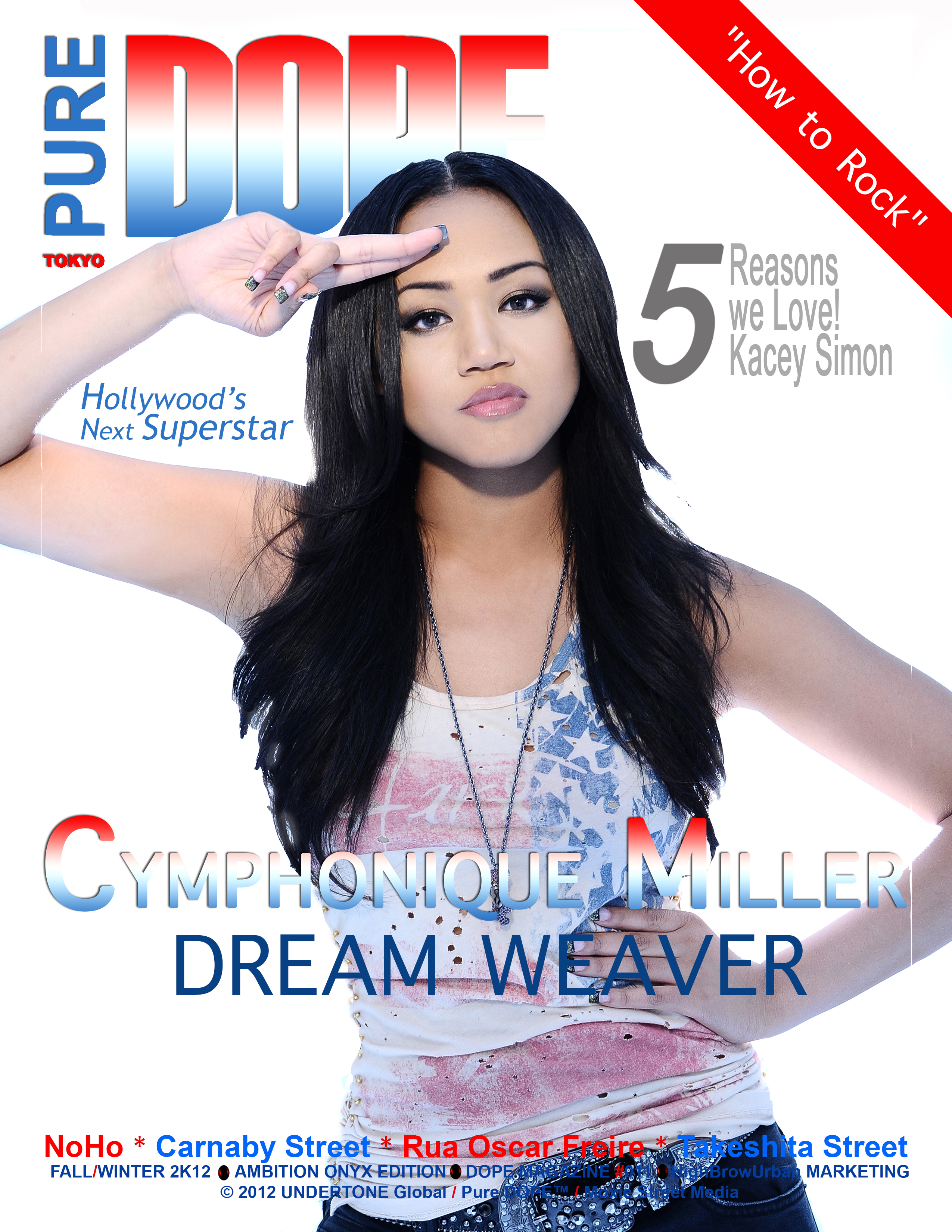 The Fall 2012 “Ambition” issue of DOPE Magazine — which featured Cymphonique Miller on the cover.